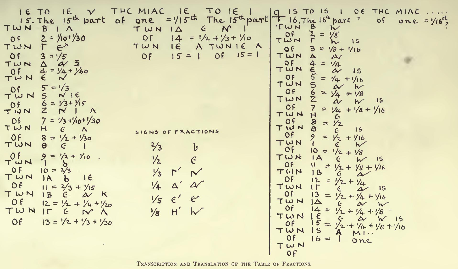 Byzantine_Table_of_Fractions. Found in Egypt, now in University College London